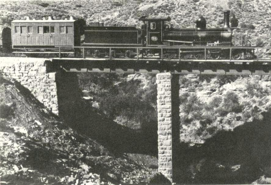 Viaduct as part of Molteno government's railway through the Hex River Mountains. The locomotive is a 4th Class "Converted Joy" that was modified to the configuration as depicted c. 1896. Cape Colony.